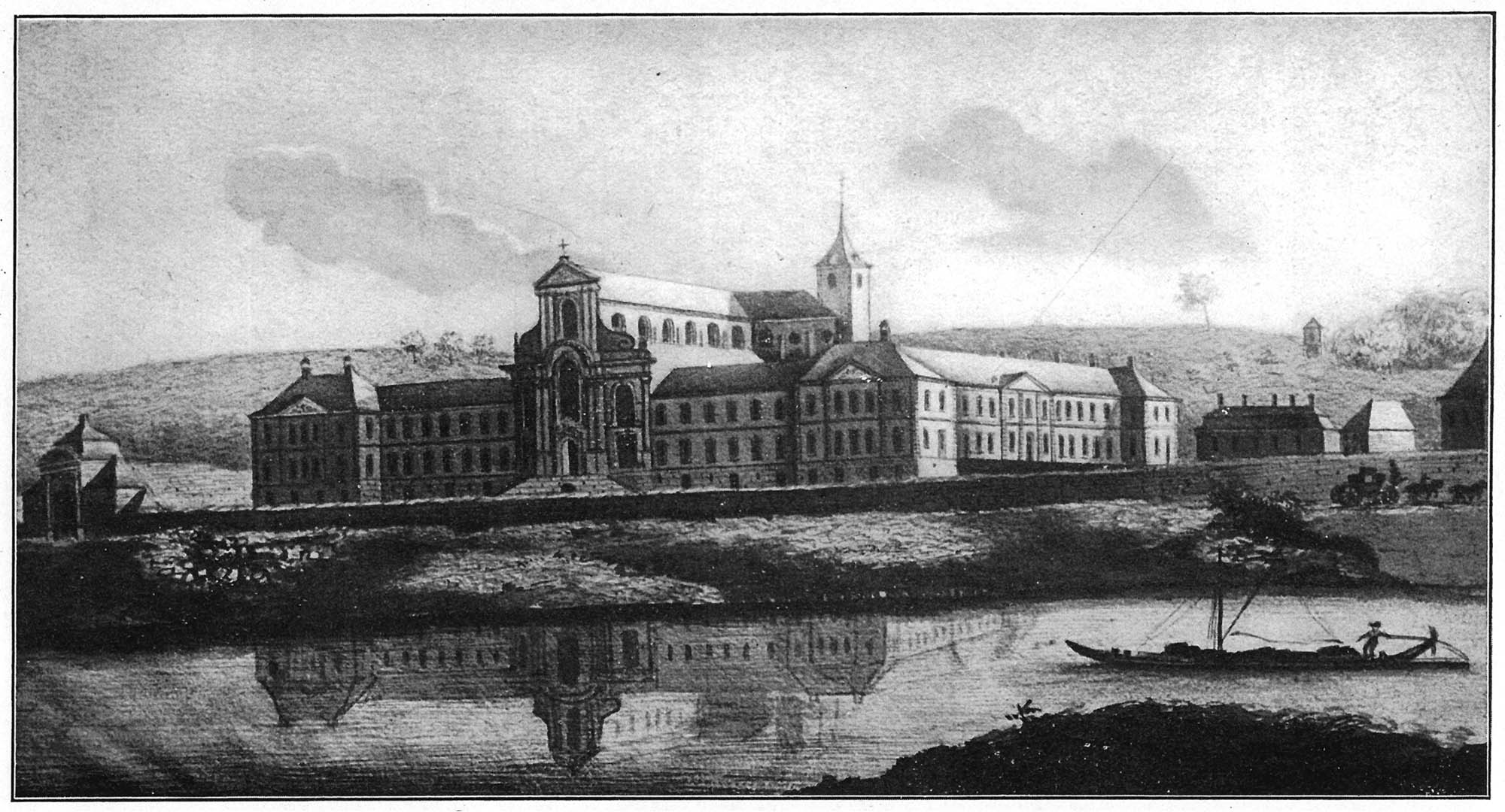 View of the cistercian abbey of Val-Saint-Lambert, shortly after the abbey had been almost completely rebuilt and expanded (1751-1765).